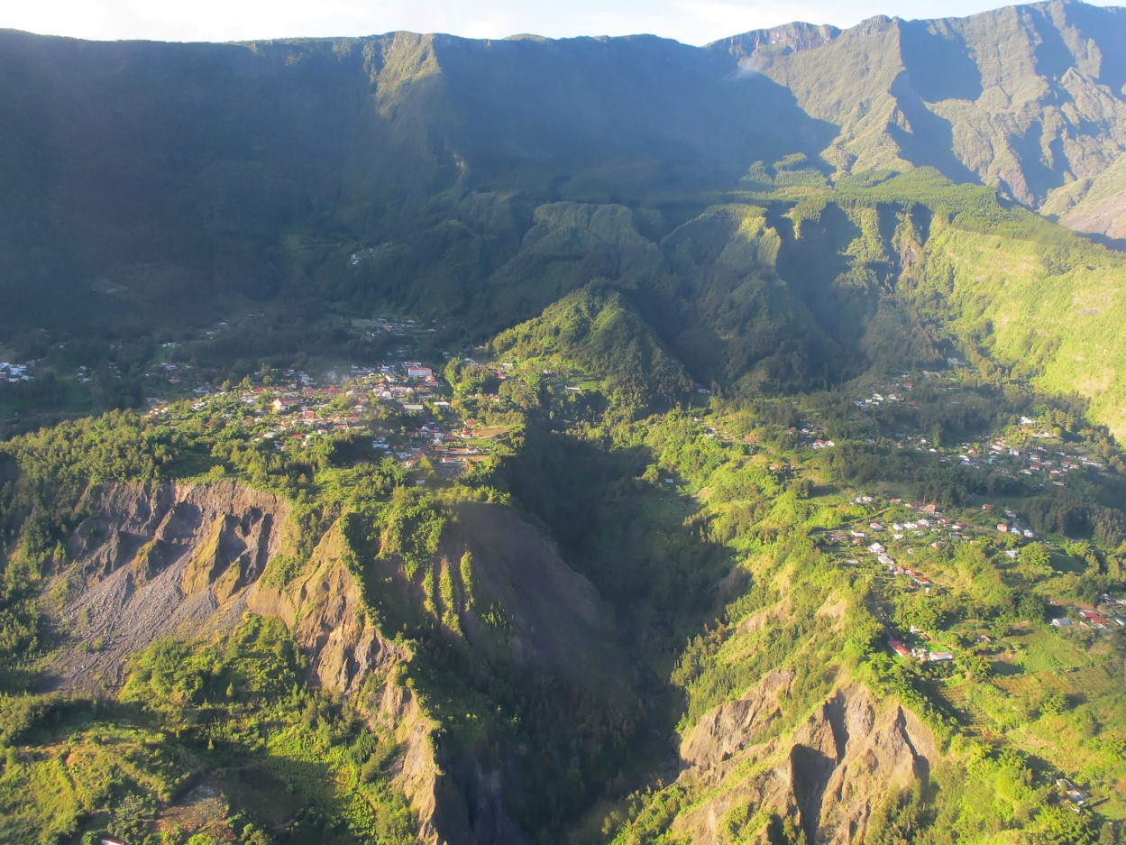 village Hell-Bourg in Cirque de Salazie